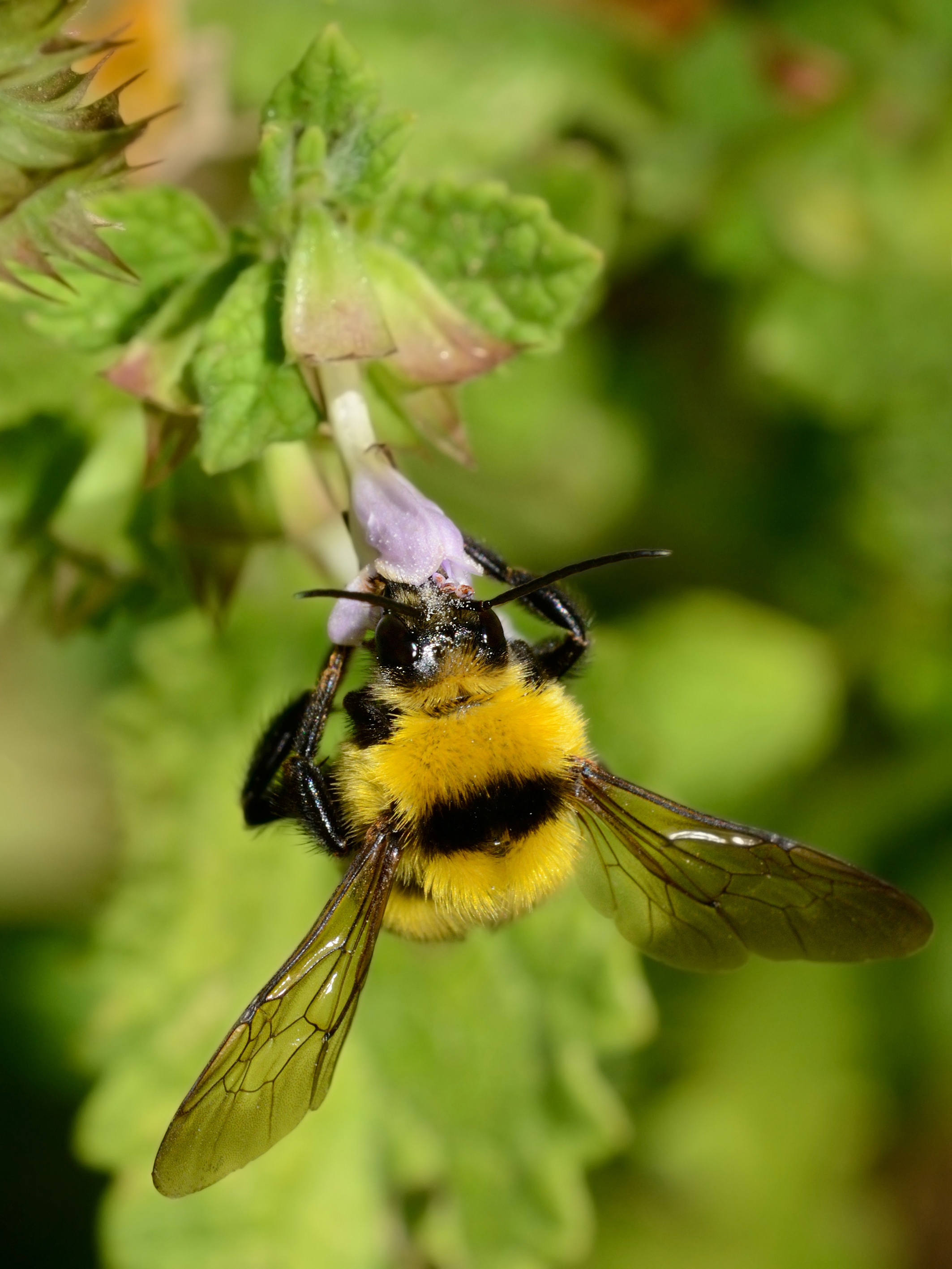 Bombus argillaceus (Scopoli 1763), male foraging on Melissa officinalis, Nahal Ar'ar, Mount Hermon, Golan Heights, July 4, 2014.